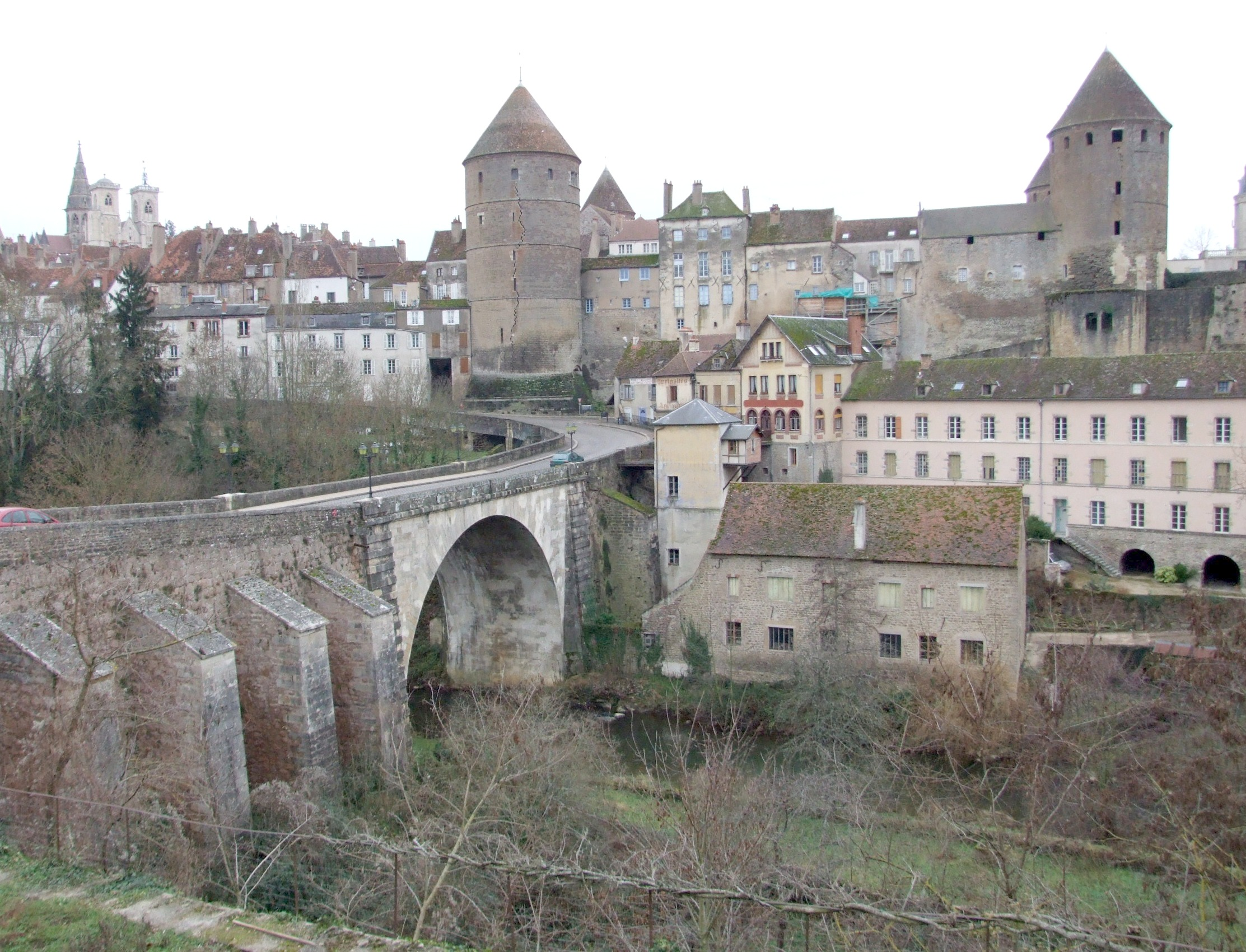 Semur-en-Auxois, Burgundy, FRANCE